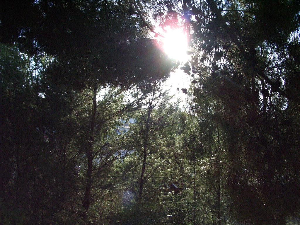 San Menaio, the ancient pinewood "Pineta Marzini"